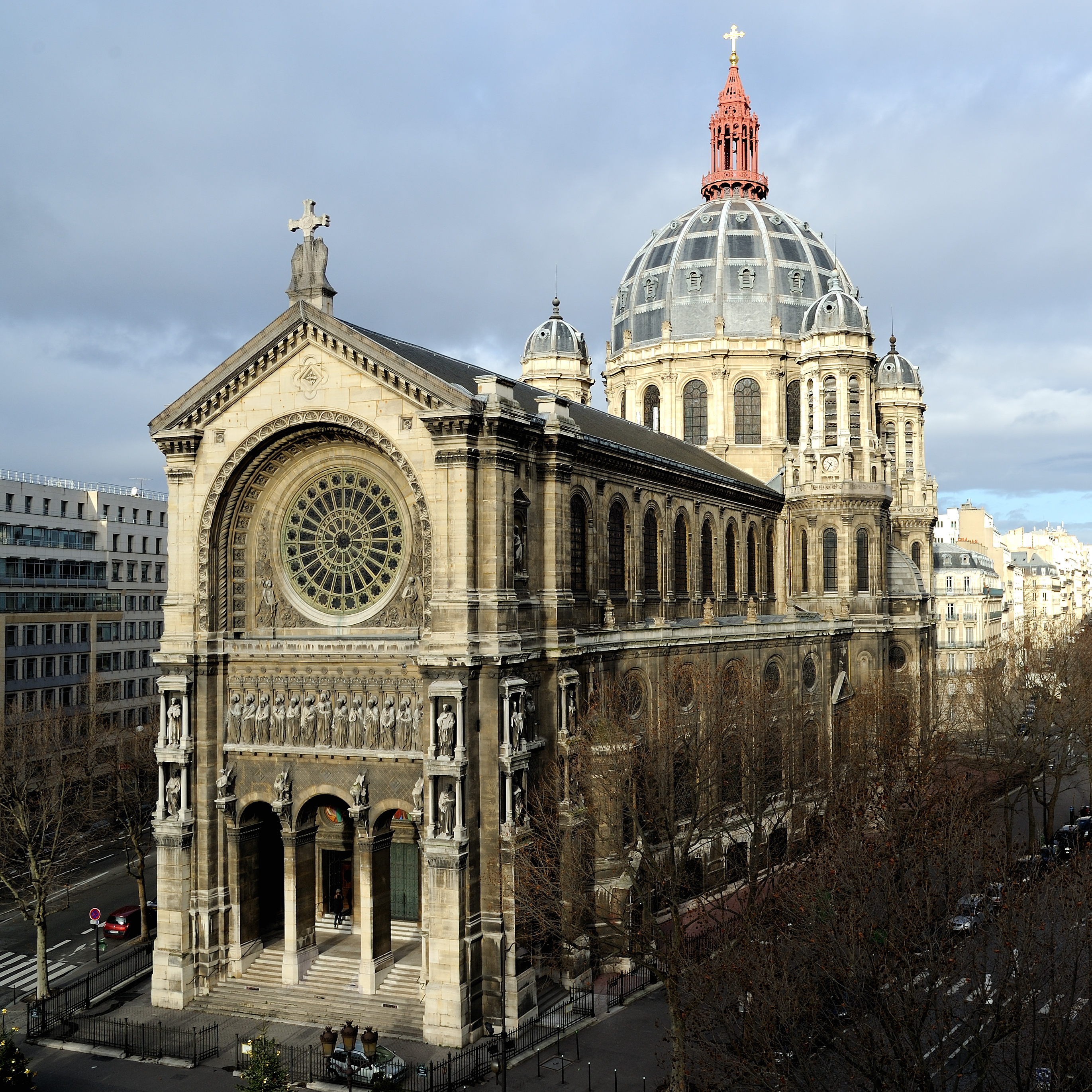 St Augustin Church (Église Saint-Augustin de Paris) - taken rom the French Officer's National Mess (Cercle National des Armées)